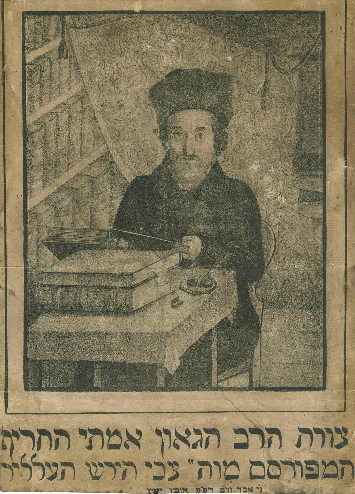 Black-and-white portrait of Rabbi Zevi Hirsch Heller.